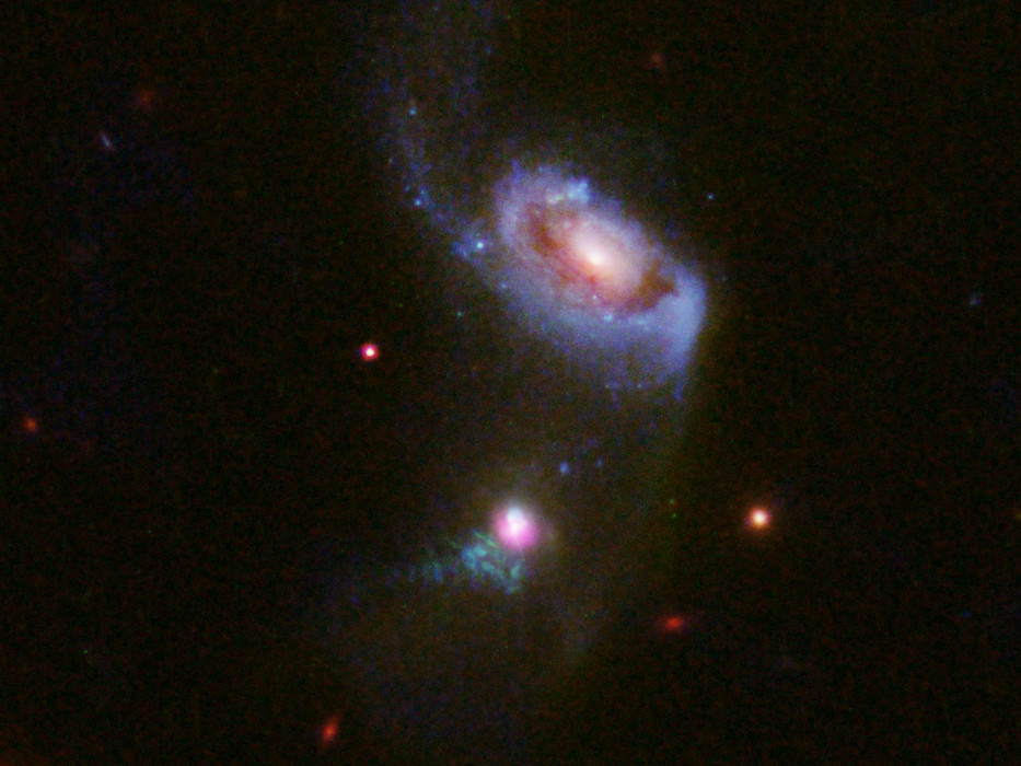 Researchers using a suite of telescopes including the NASA/ESA Hubble Space Telescope have spotted a supermassive black hole blowing huge bubbles of hot, bright gas — one bubble is currently expanding outwards from the black hole, while another older bubble slowly fades away. This cosmic behemoth sits within the galaxy at the bottom of this image, which lies 900 million light-years from Earth and is known as SDSS J1354+1327. The upper, larger, galaxy is known as SDSS J1354+1328. Supermassive which can have a mass equivalent to billions of suns, are found in the centre of most galaxies (including the Milky Way). These black holes are able to “feed” on their surroundings, causing them to shine brilliantly as Active Galactic Nuclei (AGN). However, this feeding process is not continuous as it depends on how much matter is available for the black hole to consume; if the surrounding material is clumpy and irregular, an AGN can be seen turning “off” and “on”, and flickering over long cosmic timescales. This clumpy accretion is what scientists believe has happened with the black hole in SDSS J1354+1327. Scientists believe these two outflows of material are the result of the black hole burping out material after two different feeding events. The first outburst created the fading southern relic: a cone of gas measuring 33 000 light-years across. Around 100 000 years later, a second burst spawned the more compact and radiant outflow emanating from the top of the galaxy: a cone of shocked gas some 3300 light-years across.